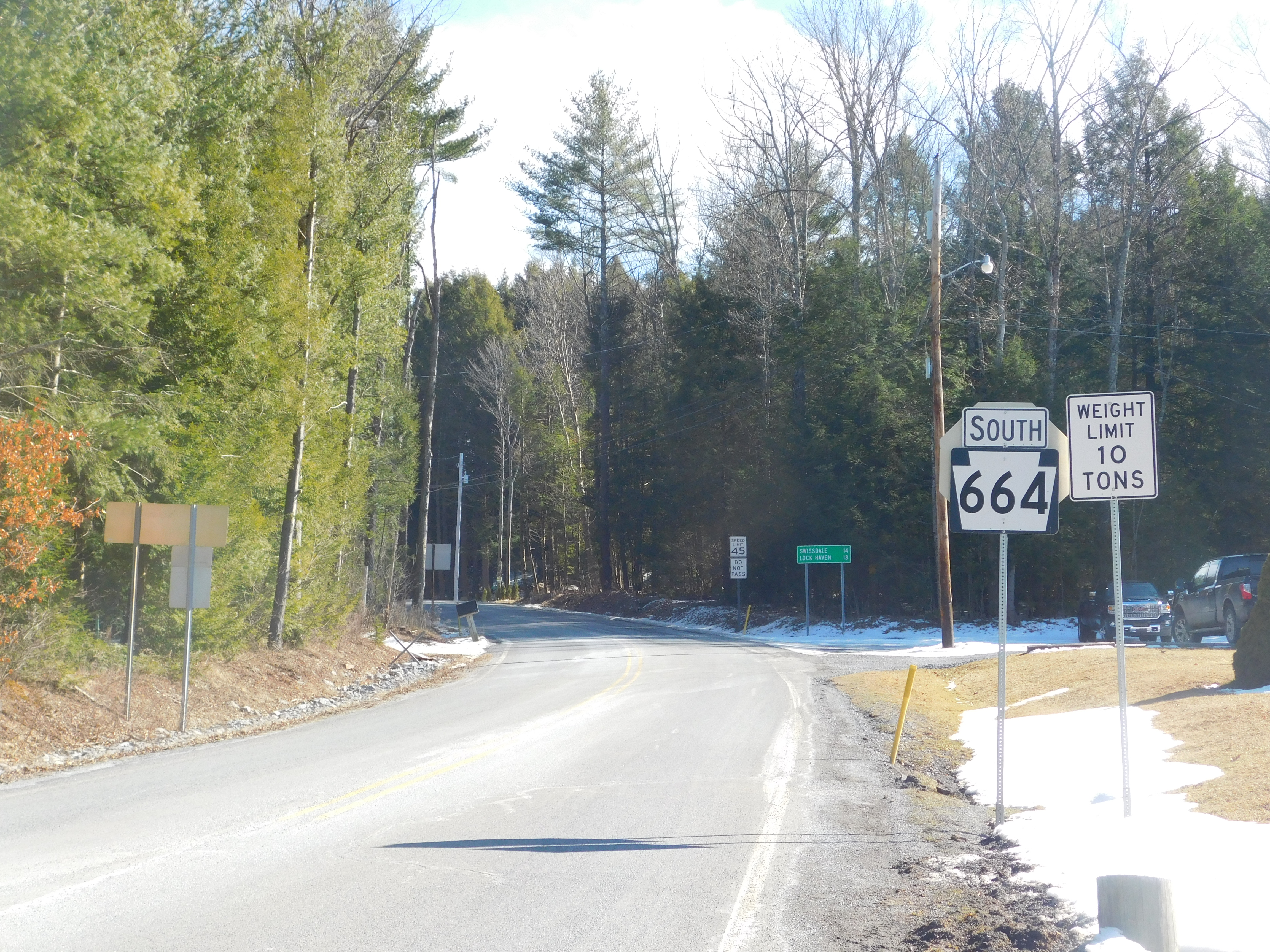 PA 664 in Haneyville, Pennsylvania.